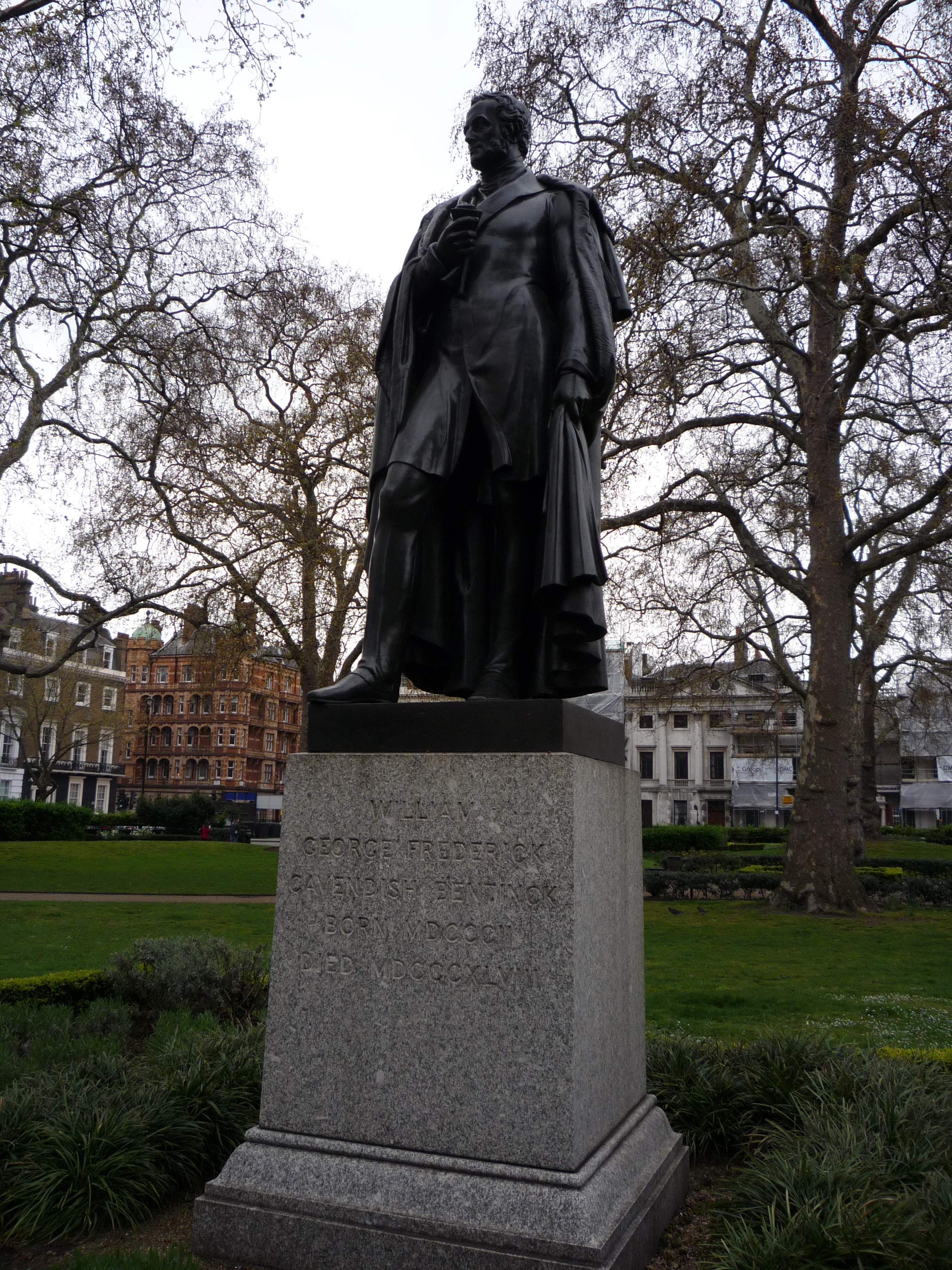 Statue in Cavendish Square, London, of Lord William George Frederick Cavendish Bentinck 1802-1848. Known simply as Lord George Bentinck, he was MP for Kings Lynn, Norfolk. The statue is by Thomas Campbell and was erected in 1848.